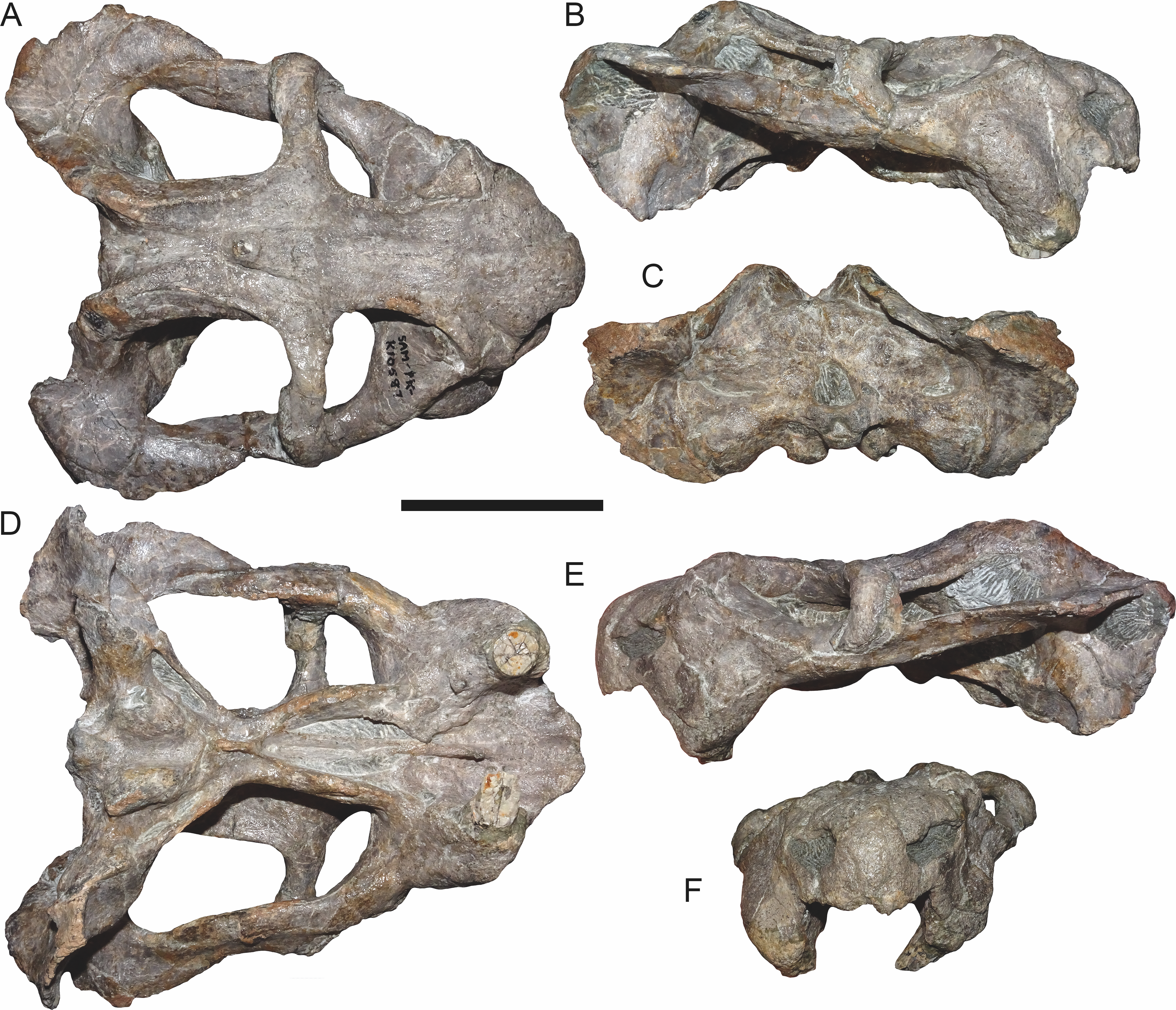 SAM-PK-K10587, referred specimen of Bulbasaurus phylloxyron gen. et sp. nov., in (A) dorsal, (B) right lateral, (C) occipital, (D) ventral, (E) left lateral, and (F) anterior views. Scale bar equals 5 cm.